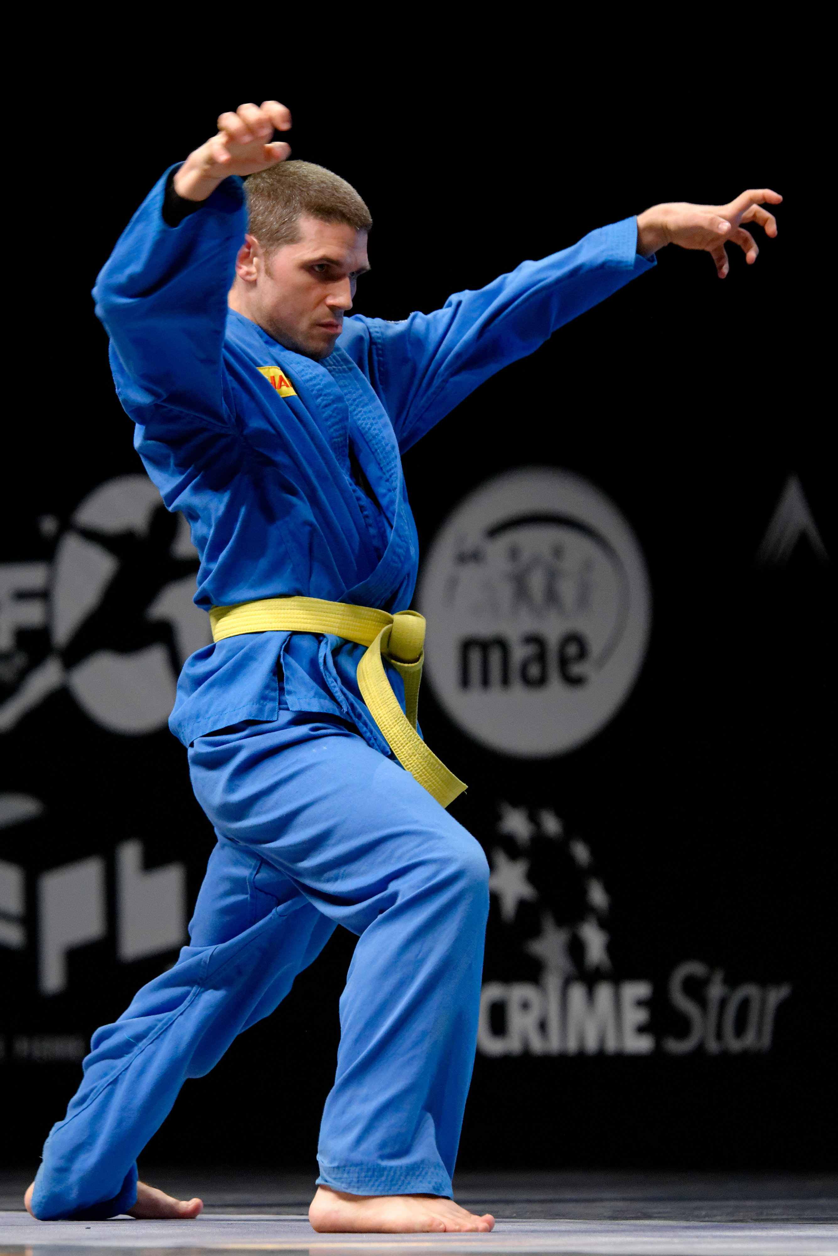 Vovinam demonstration at the 2014 Master de Fleuret Melun Val de Seine.